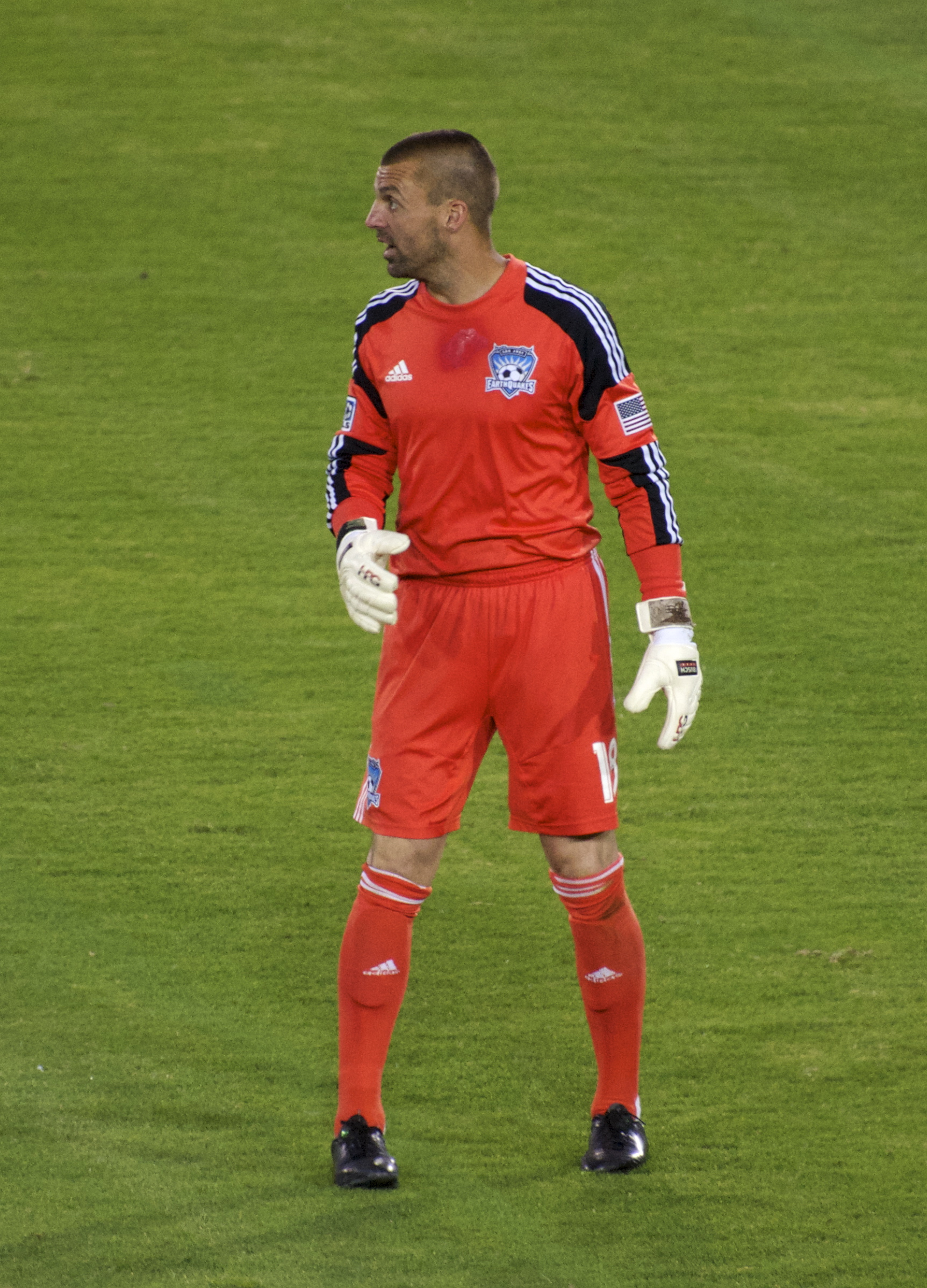 Jon Busch, Stanford Stadium, San Jose Earthquakes vs La Galaxy, Saturday 2013-06-29